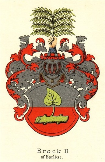 Coat of arms of the Brok of Barløsegård family